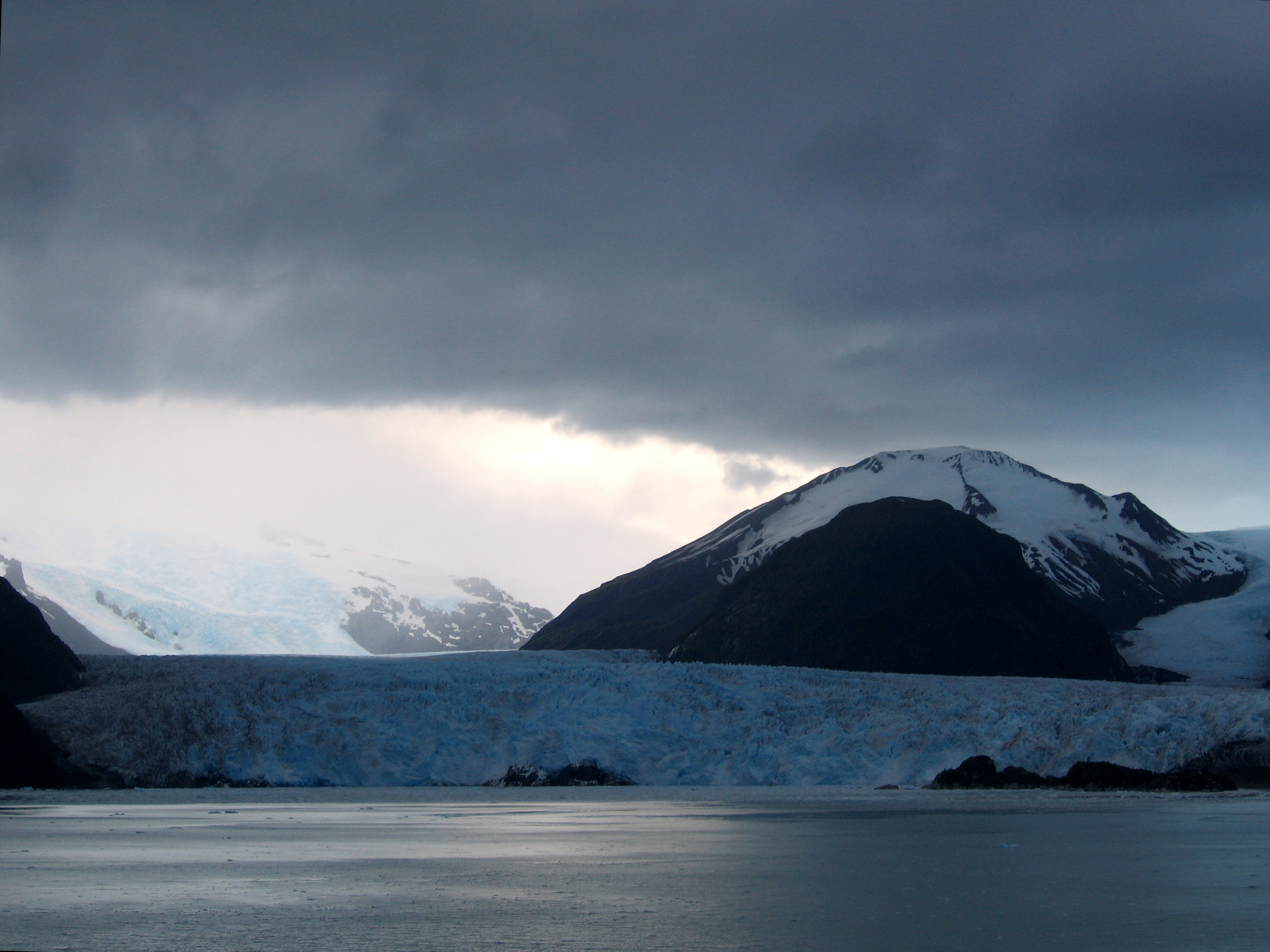 Amalia Glacier, South Patagonia, Chile